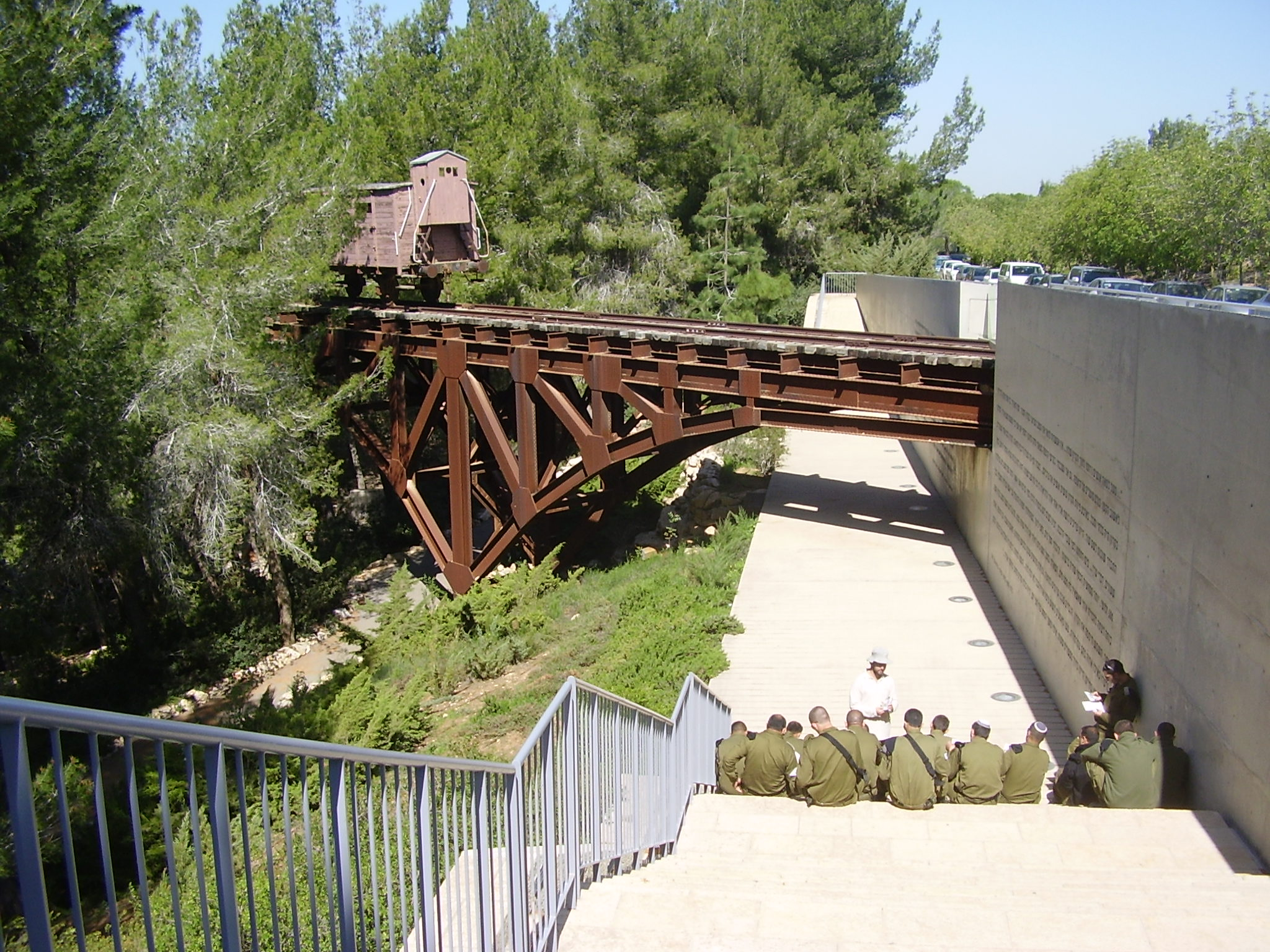 waggon monument at yad vashem